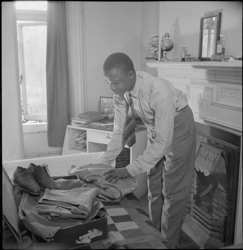 Colonial Centre- Everyday Life at the Colonial Club, Russell Square, London, England, UK, 1944 Law student Mr N'jie unpacks his suitcase in his cubicle at the Colonial Centre at 17 Russell Square, London. Mr N'jie is from Gambia. According to the original caption "members pay 2/6 a night for a cubicle, 2/- for a bed in a dormitory". This particular cubicle looks very comfortable: the sun is streaming in through the window and a small shelving unit and fireplace can be seen on the right.